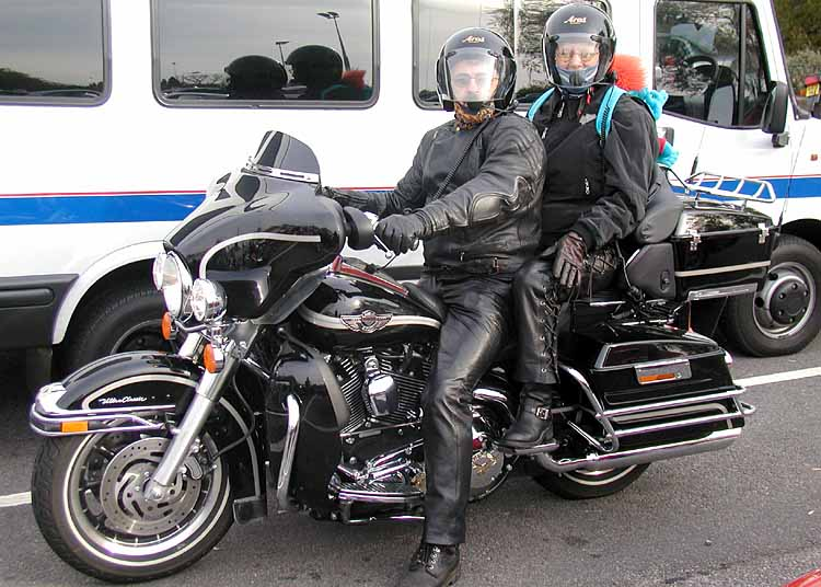 Harley Davidson Electra Glide “Ultra Classic”, at Aust Motorway Services, Bristol, England.